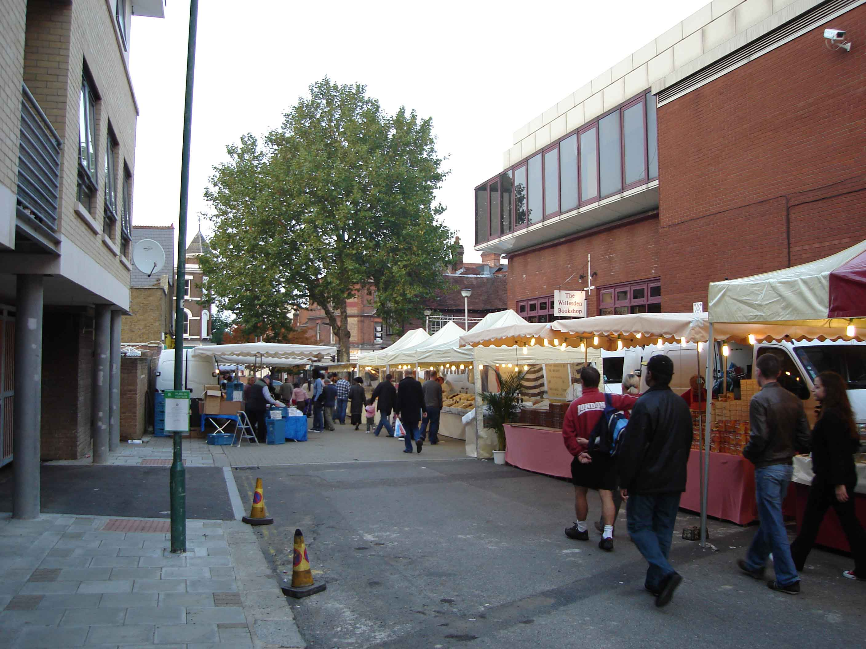 Willesden: Willesden French Market in October 2006 by Ajplondon